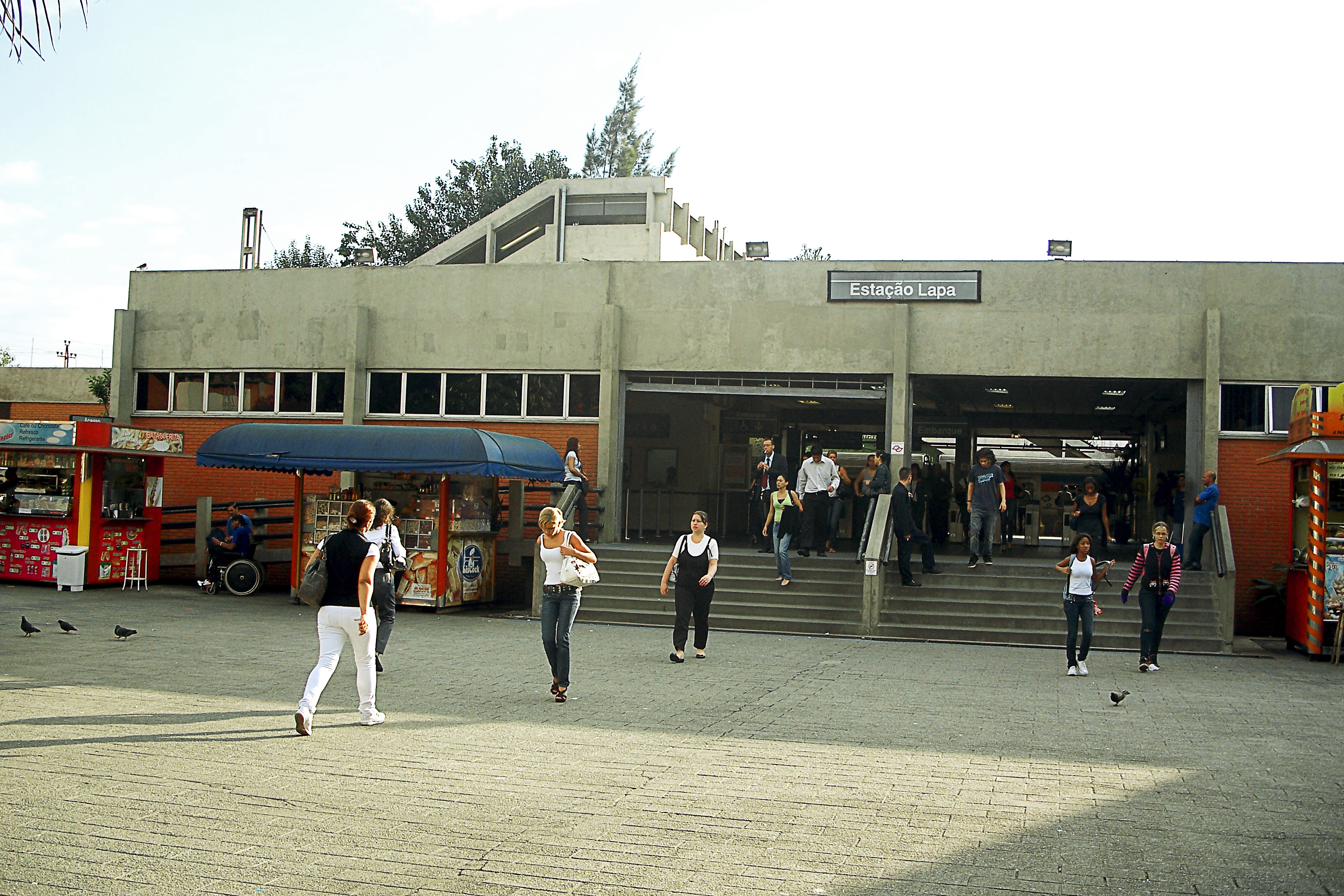 Lapa station's façade (CPTM's Line 8), in São Paulo, Brazil.